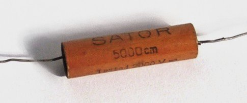 A historical paper capacitor (specifically a metallized paper capacitor) whose capacitance is given in "cm" (centimetres, using the Gaussian system of CGS units). The capacitance correlates to the radius from 5000 cm (50 metres) of a metal sphere. A capacitance of 1 cm in Gaussian units is equivalent to approximately 1.1 pF (picofarads) in the SI system of units.